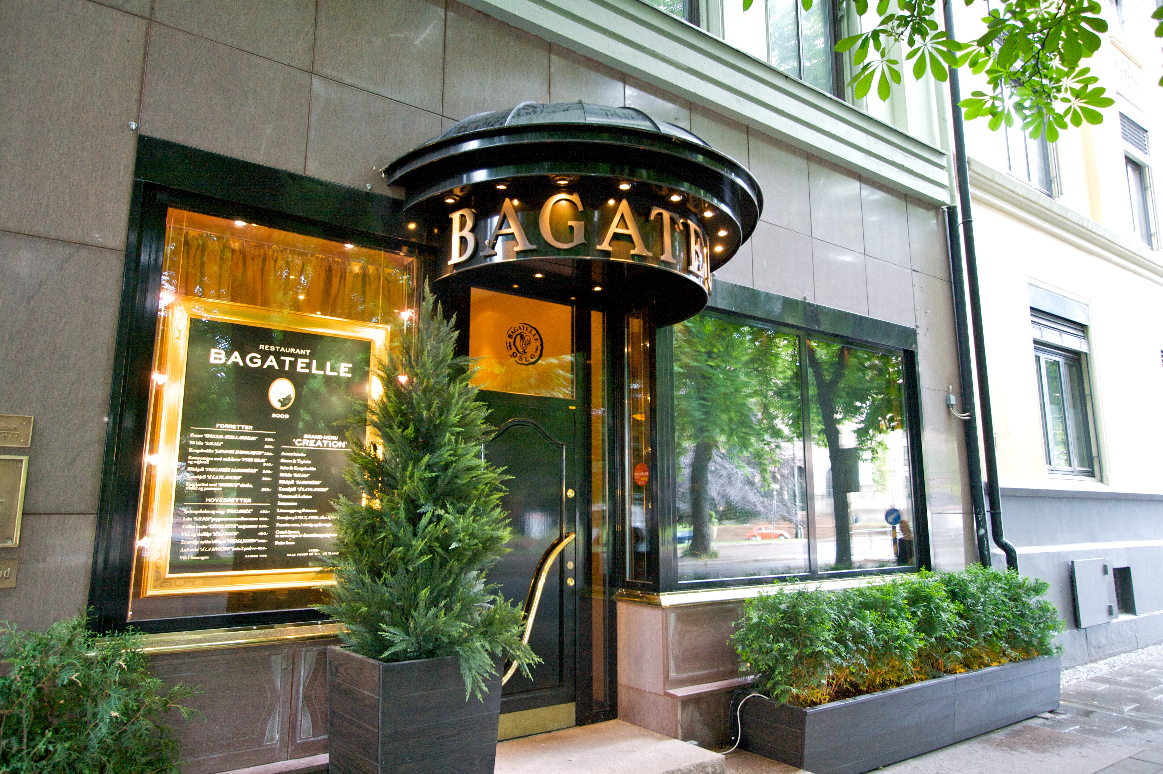 Bagatelle restaurant, Oslo, Norway.